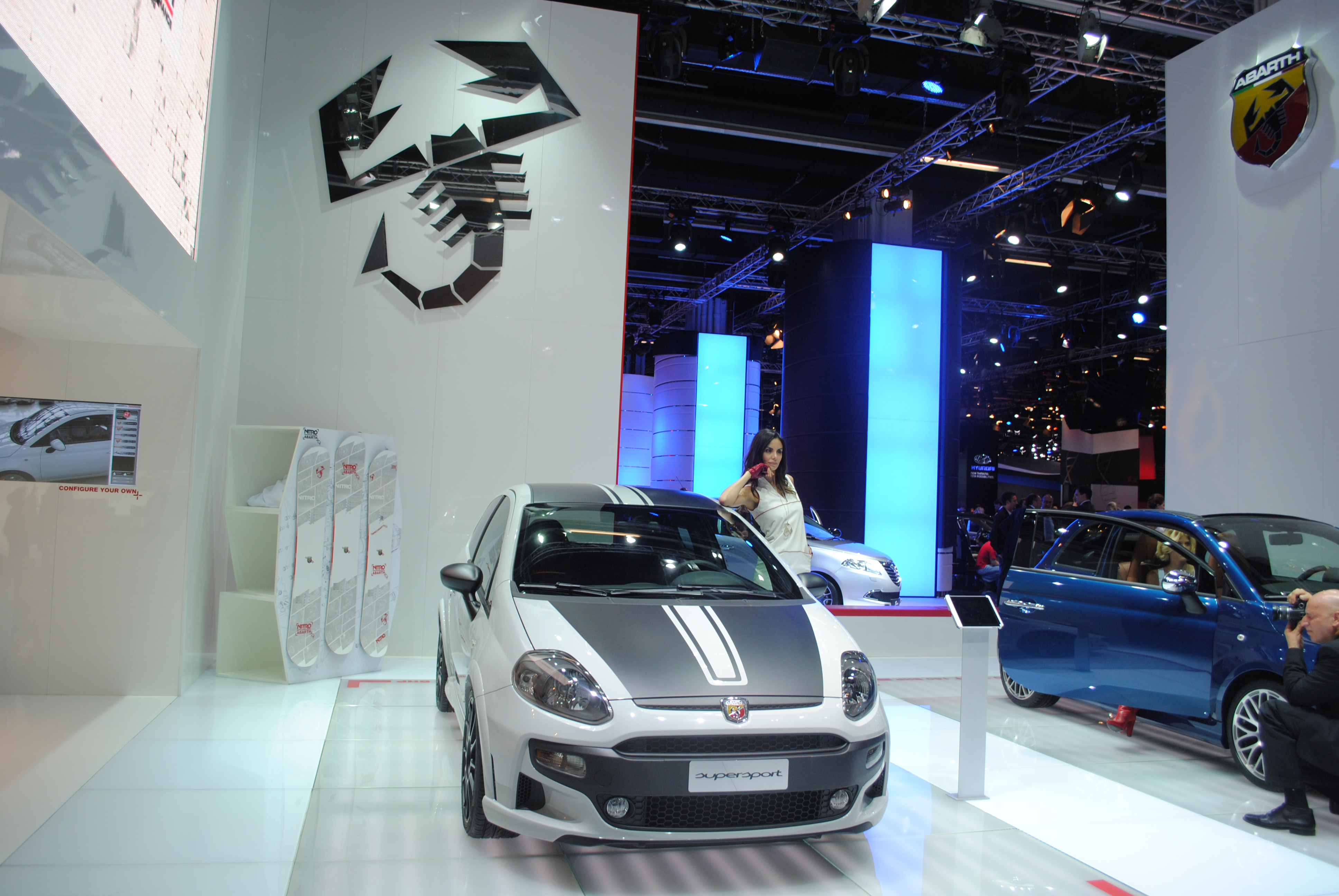 More photos and info